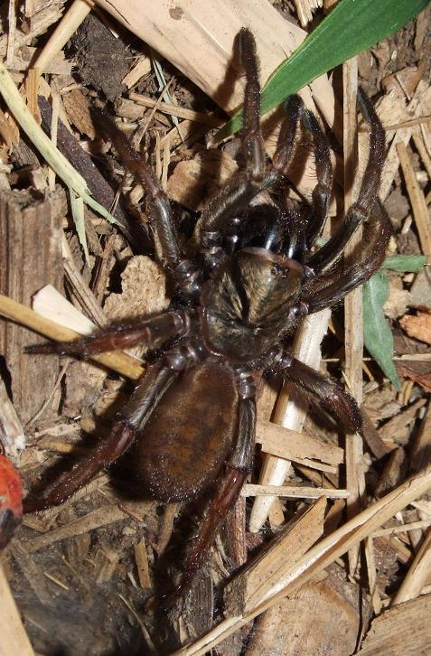 Sydney brown trapdoor spider (Misgolas rapax) in Kurrajong, New South Wales.